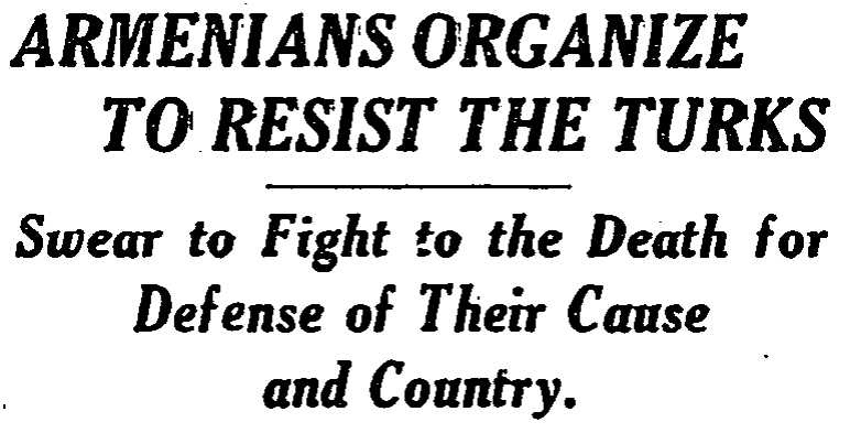 May 15, 1918 ARMENIANS ORGANIZE TO RESIST THE TURKS; Swear to Fight to the Death for Defense of Their Cause and Country.